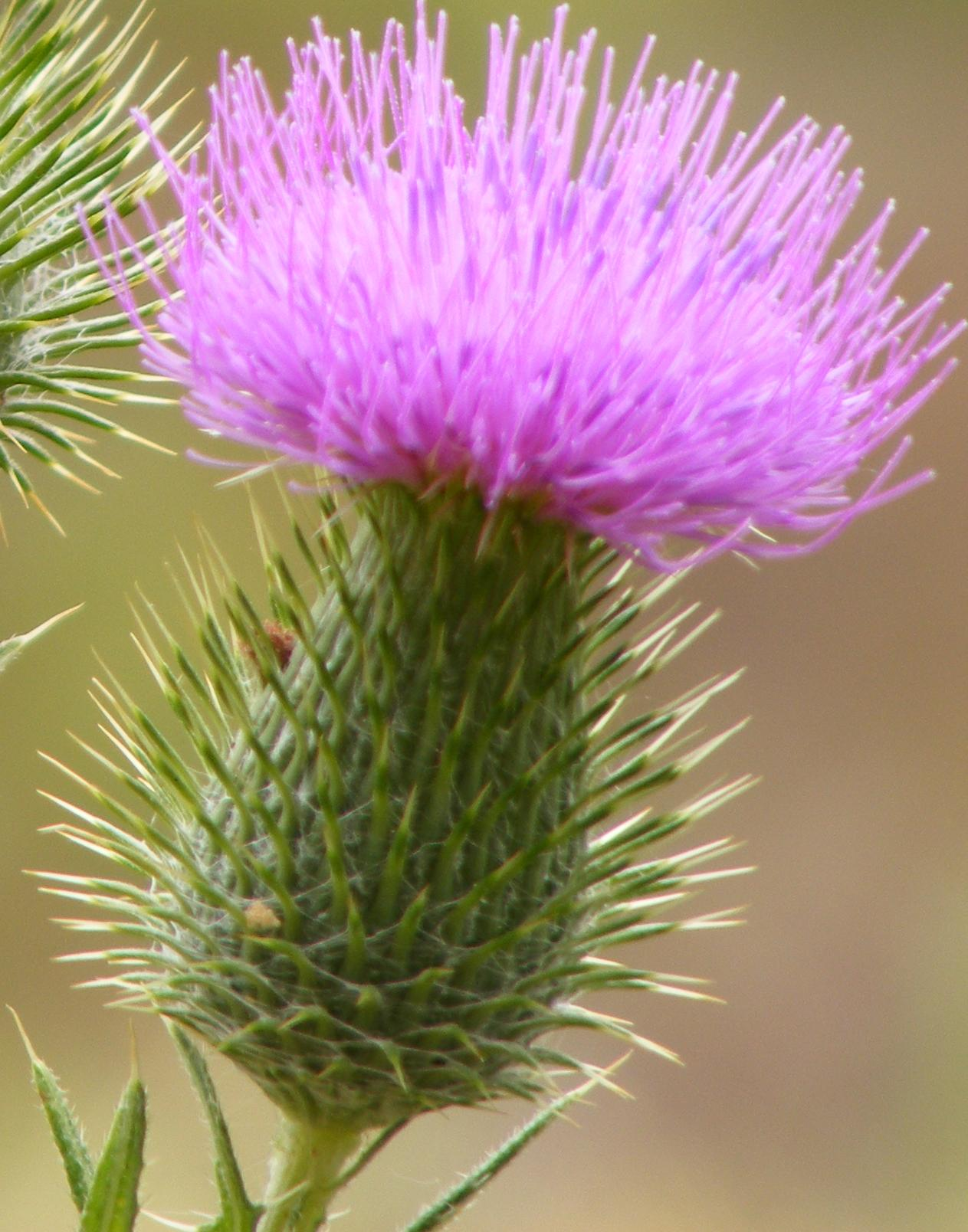 Cirsium vulgare (Spear Thistle) at Anstey Hill recreation park, Adelaide, South Australia